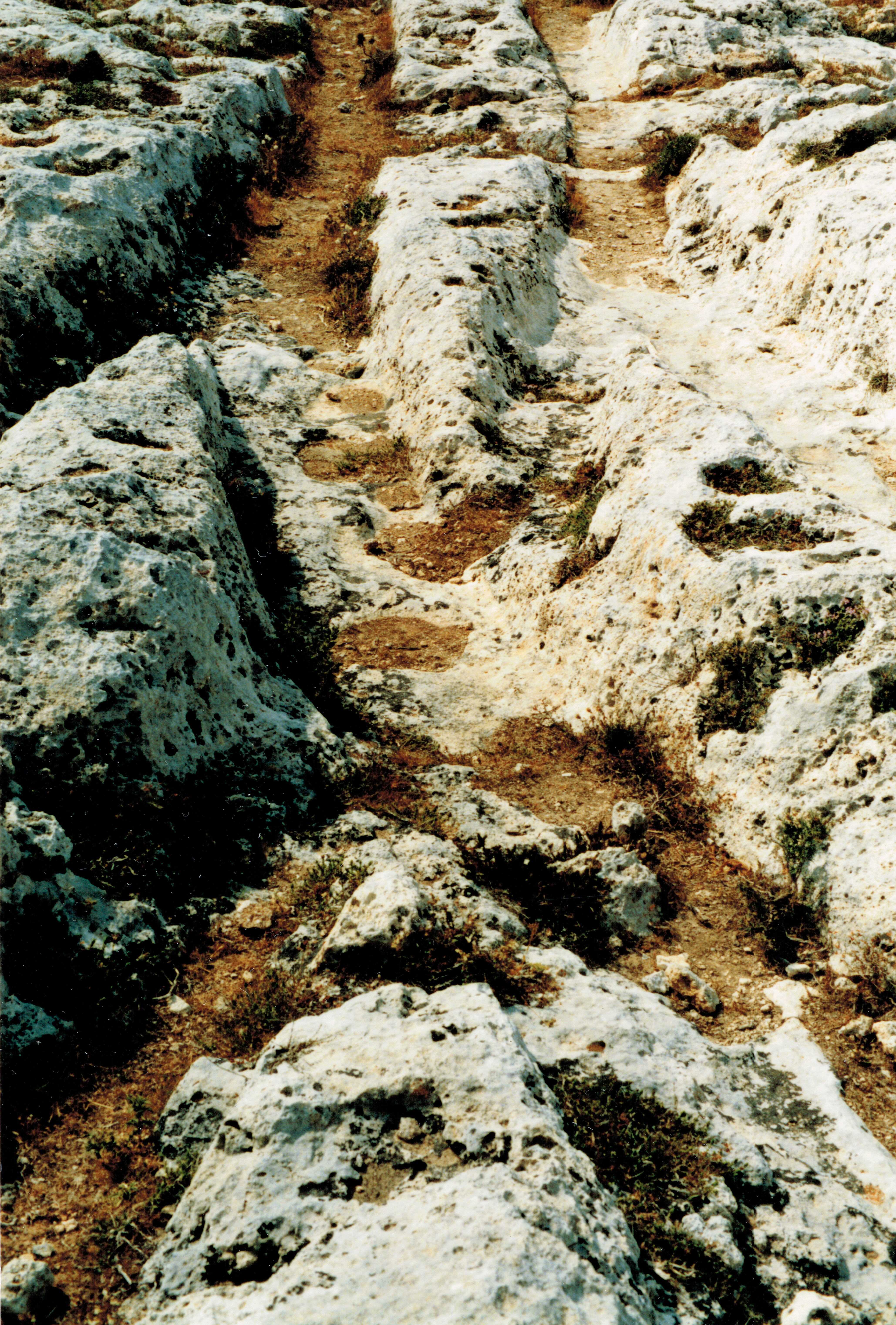 Prehistoric tracks (cart ruts) at Clapham Junction Prähistorische Schleifspuren Clapham Junction Předhistorické tzv. kolejnice, vyryté do skály zvané Clapham Junction